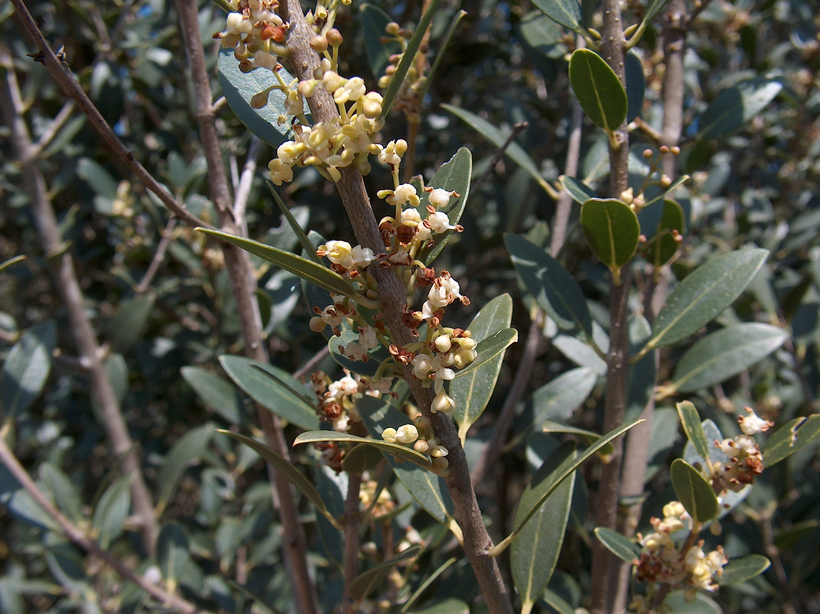 Leaves and flowers of Phillyrea latifolia (Place: Professional Institute of Agriculture and Environment "Cettolini" Villacidro, Sardinia, Italy)